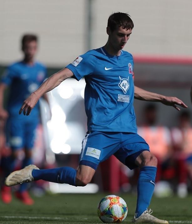 Aleksandr Soldatenkov with FC Chertanovo Moscow in a game against Russia national team.